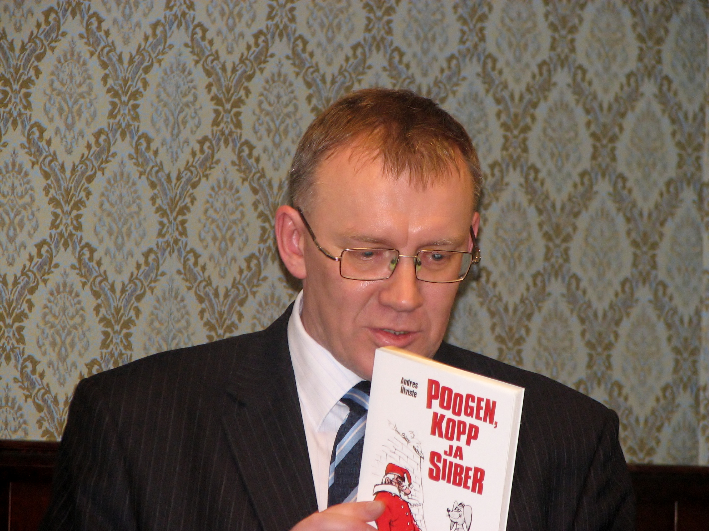 Estonian prosecutor Andres Ülviste presenting his book